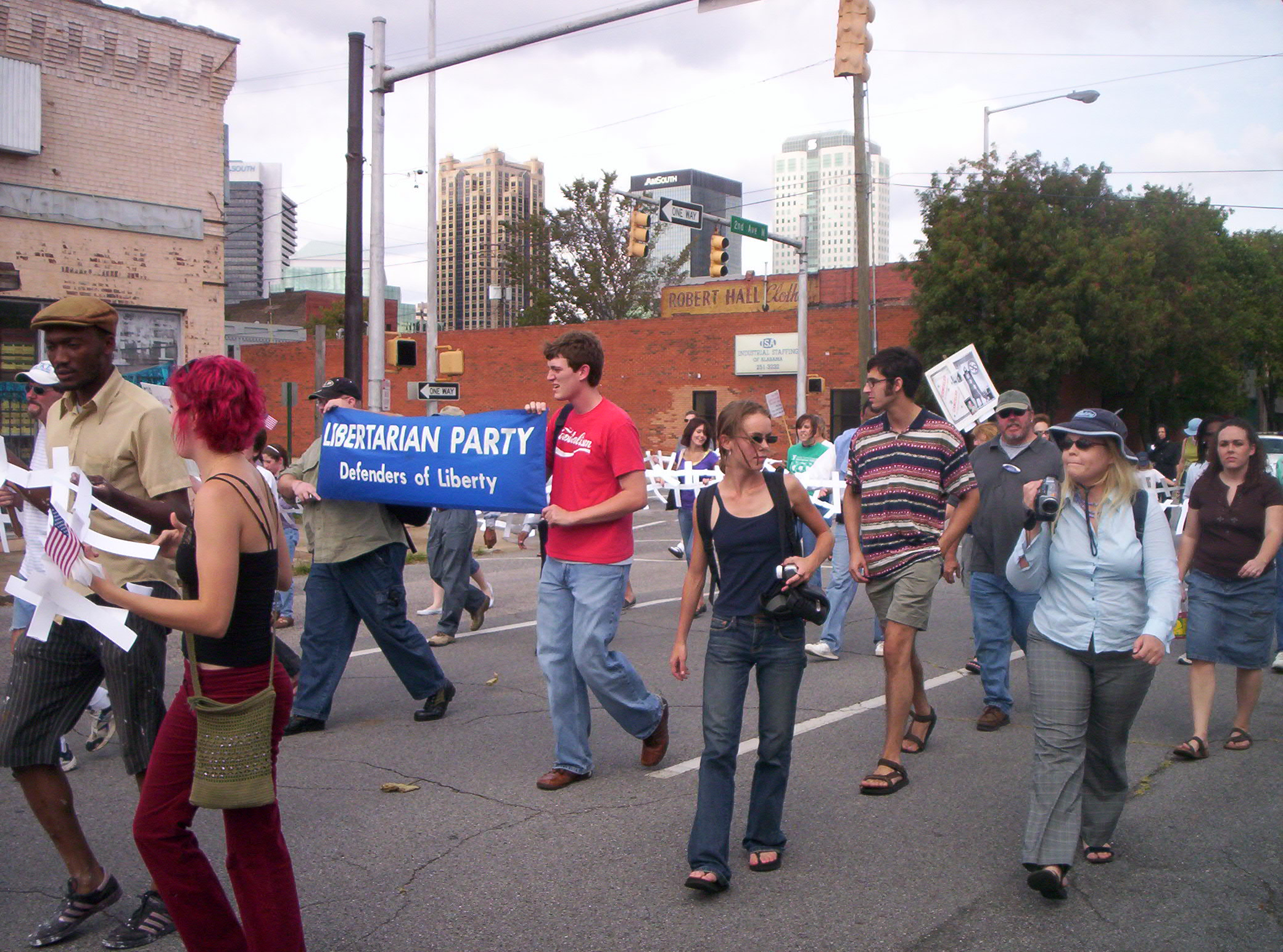 A peace march against the Iraq War held on 24 September 2005 in Birmingham, AL.